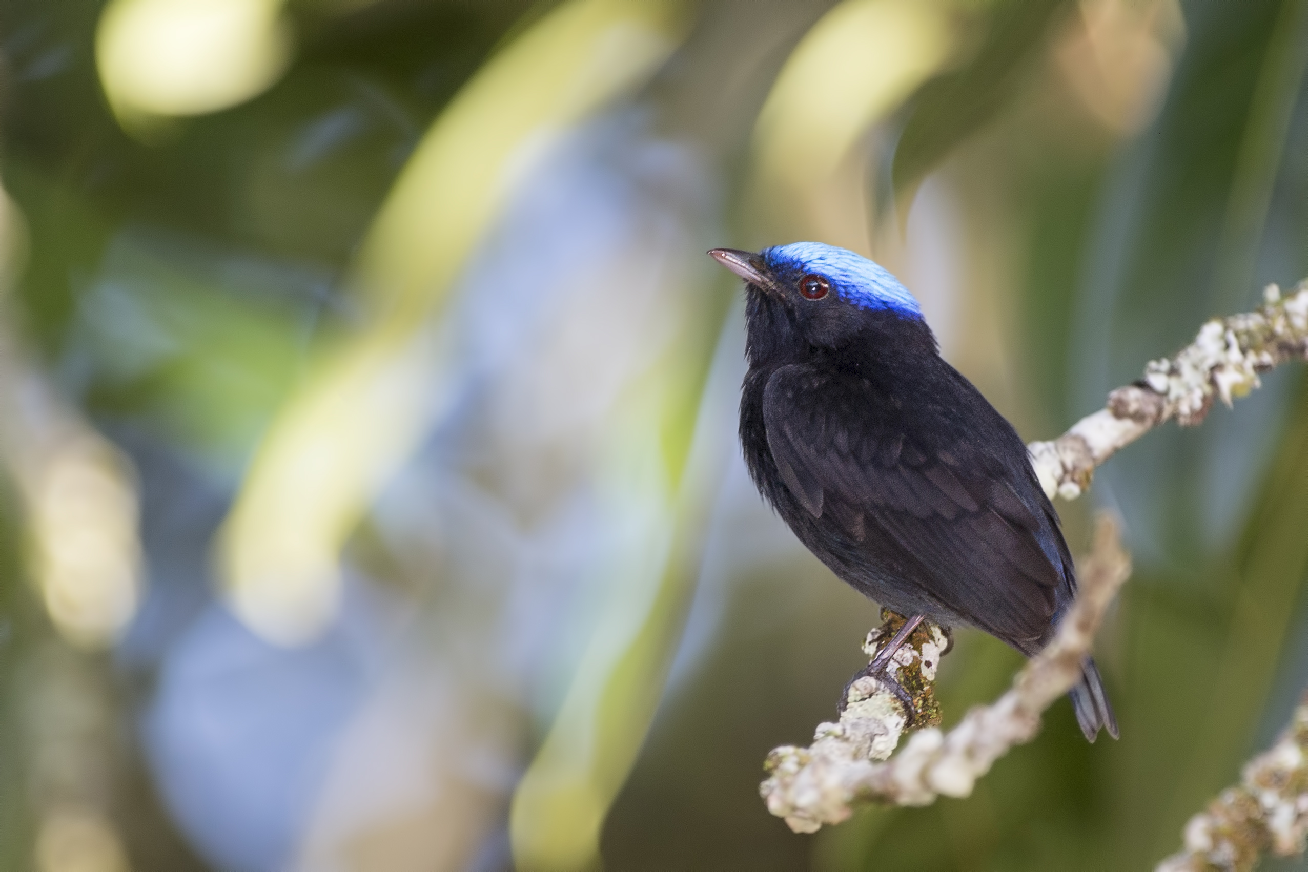 A male Blue-crowned Manakin. Manacapuru, Amazonas, Brazil